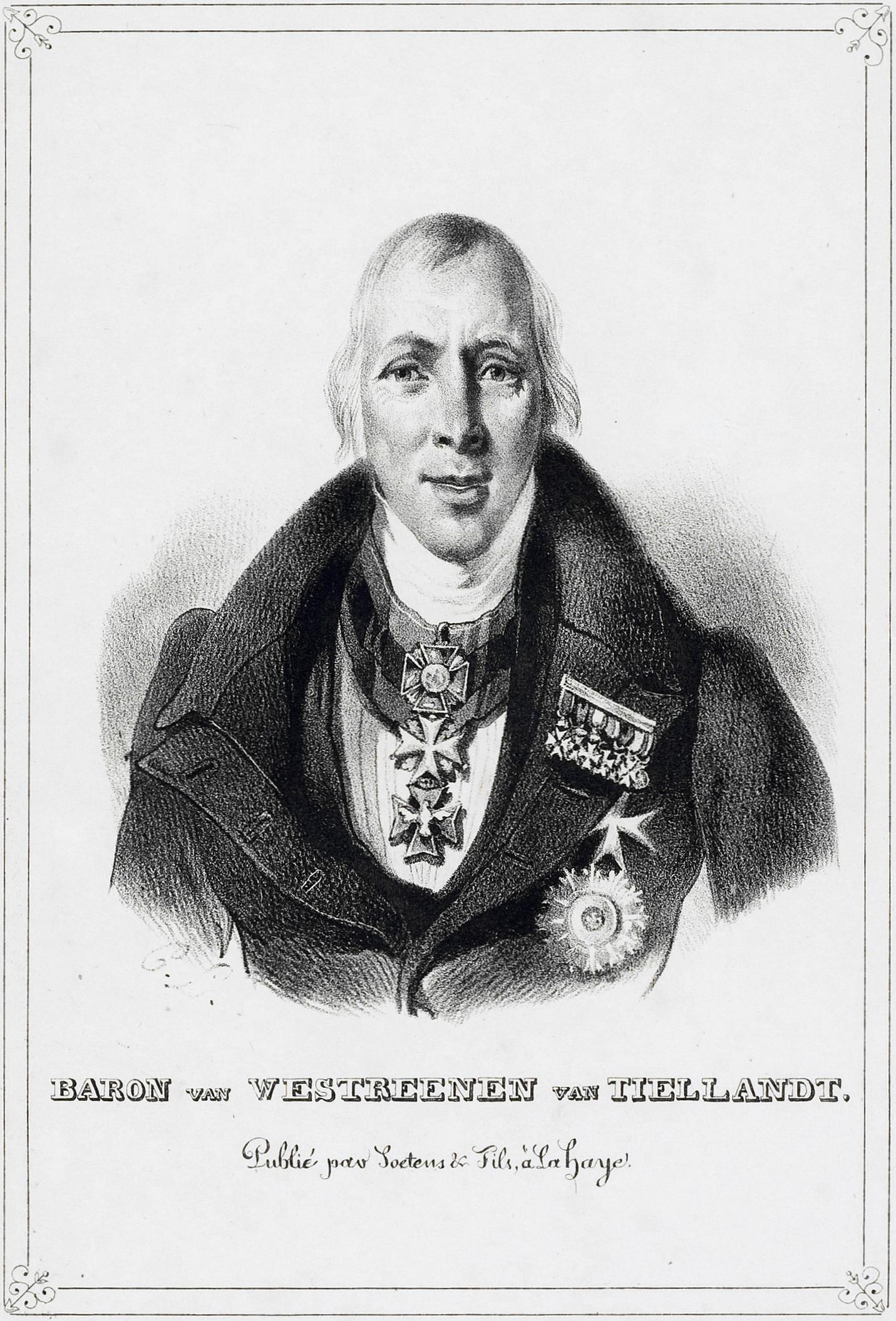 Baron Willem Hendrik Jacob van Westreenen van Tiellandt (1783-1848), founder of Museum Meermanno-Westreenianum in The Hague, the Netherlands